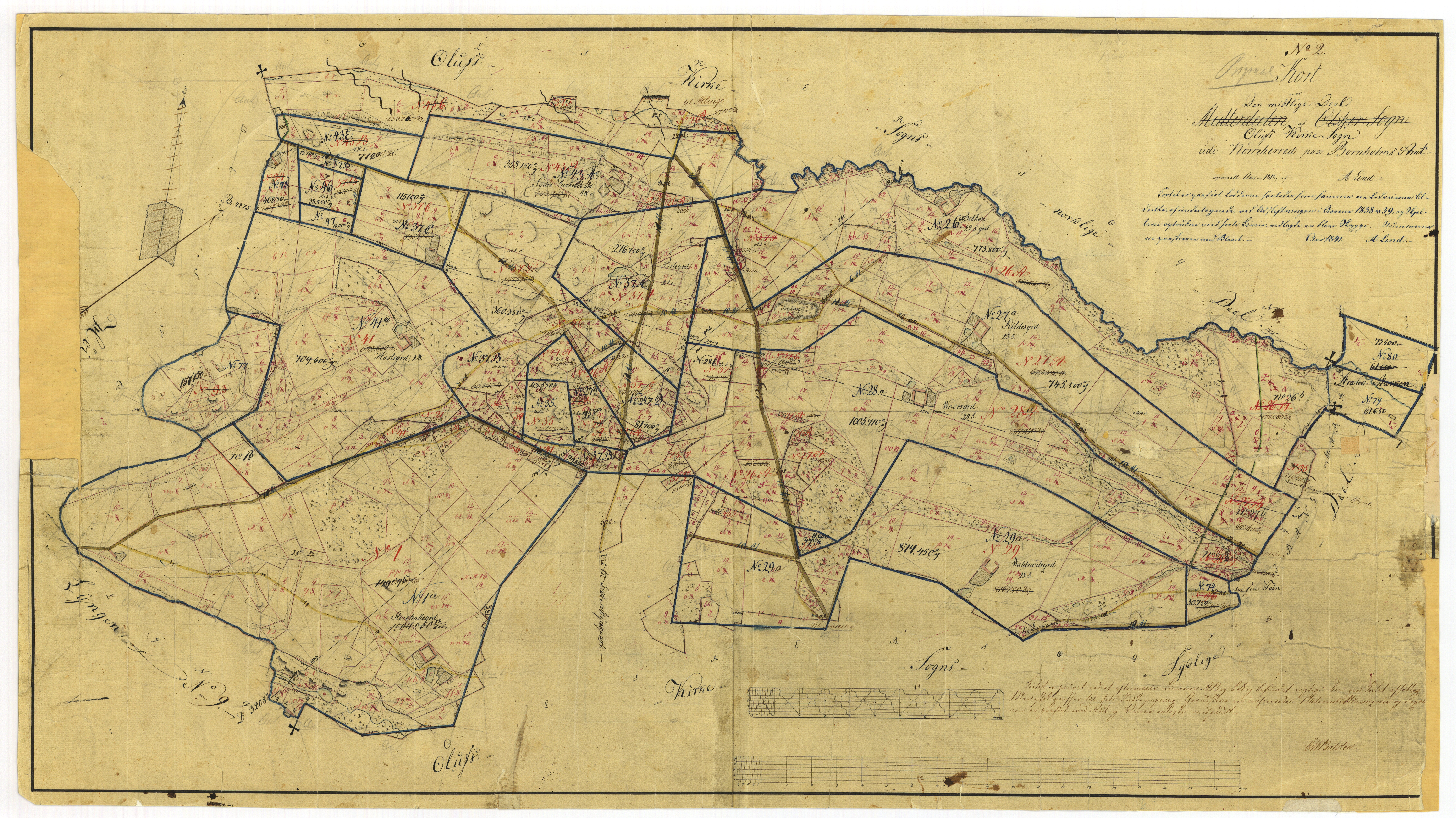 Anders lind matrikelkort 1838